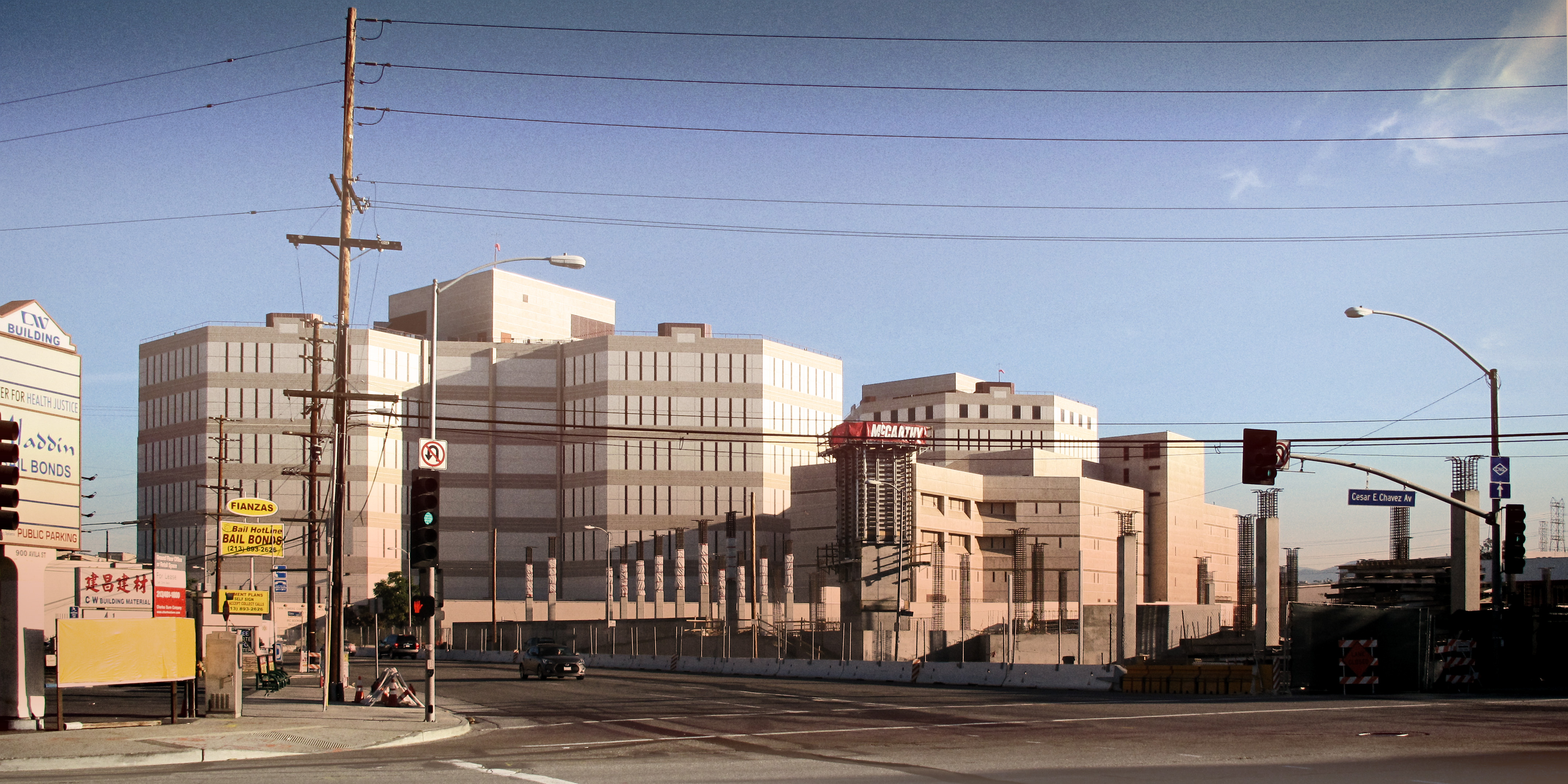 Los Angeles Men's Central Jail "Twin Towers", just northeast of Union Station in Los Angeles. A Metro bus facility is being built that will obscure this view. This image has some filters applied in processing to give it an appropriate mood.